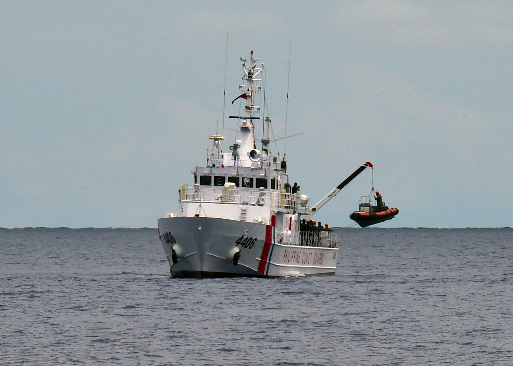 180903-N-QV906-0023 AT SEA (September 3, 2018) A team of Philippine Coast Guardsmen ride a Rigid Hulled Inflatable Boat during Visit, Board, Search, and Seizure practical scenario training as part of Southeast Asia Cooperation and Training (SEACAT) 2018. This is the 17th annual SEACAT exercise and includes participants from the U.S., Brunei, Bangladesh, Thailand, Philippines, Singapore, Vietnam, Malaysia and Indonesia. (U.S. photo by Mass Communication Specialist 1st Class Micah Blechner/RELEASED)